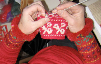 A photo of a Finnish tapestry crocheter for tapestry crochet.